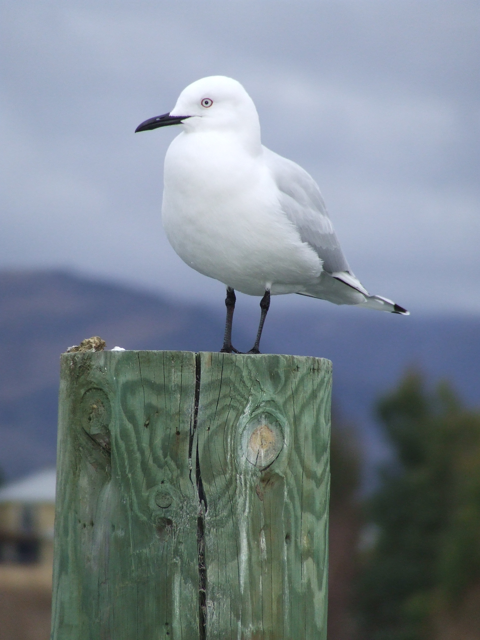 Black billed gull at Lake Dunstan, Cromwell, New Zealand.